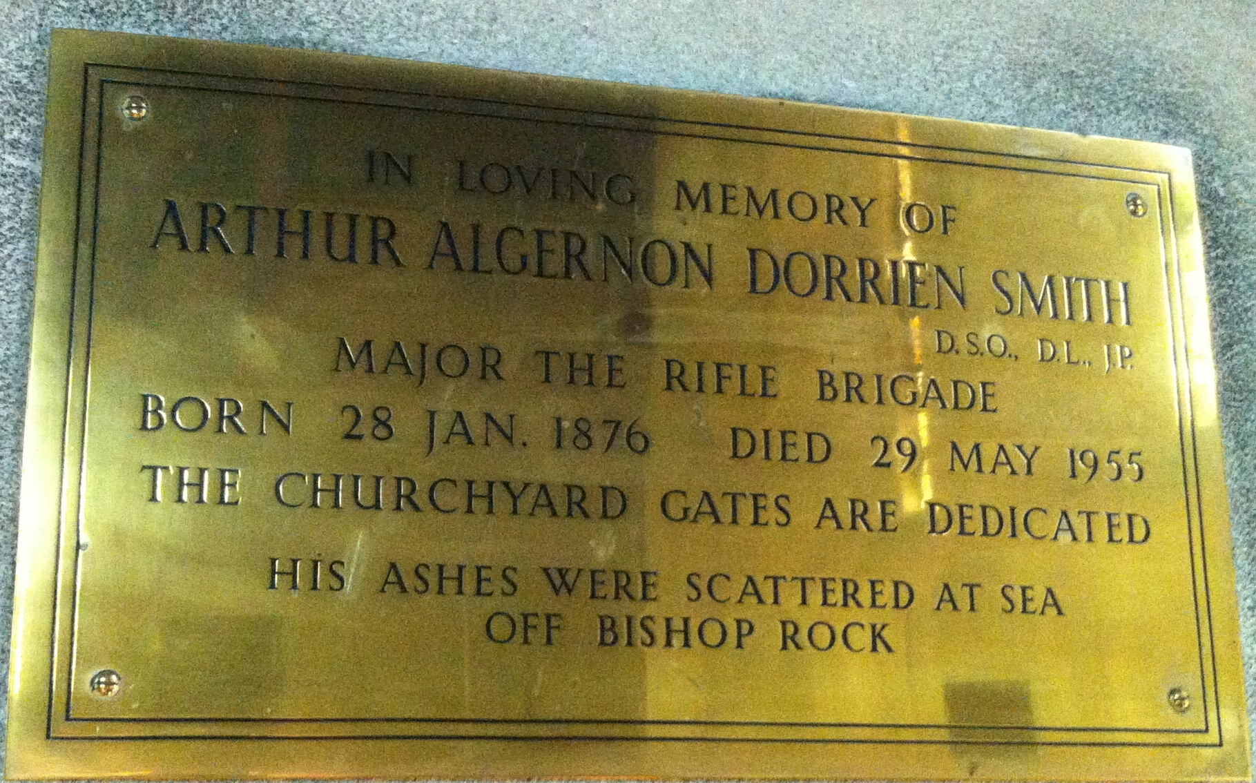 In loving memory of Arthur Algernon Dorrien Smith DSO DL JP Major the Rifle Brigade Born 28 Jan 1876 Died 29 May 1955 The churchyard gates are dedicated His ashes were scattered at sea off Bishop Rock